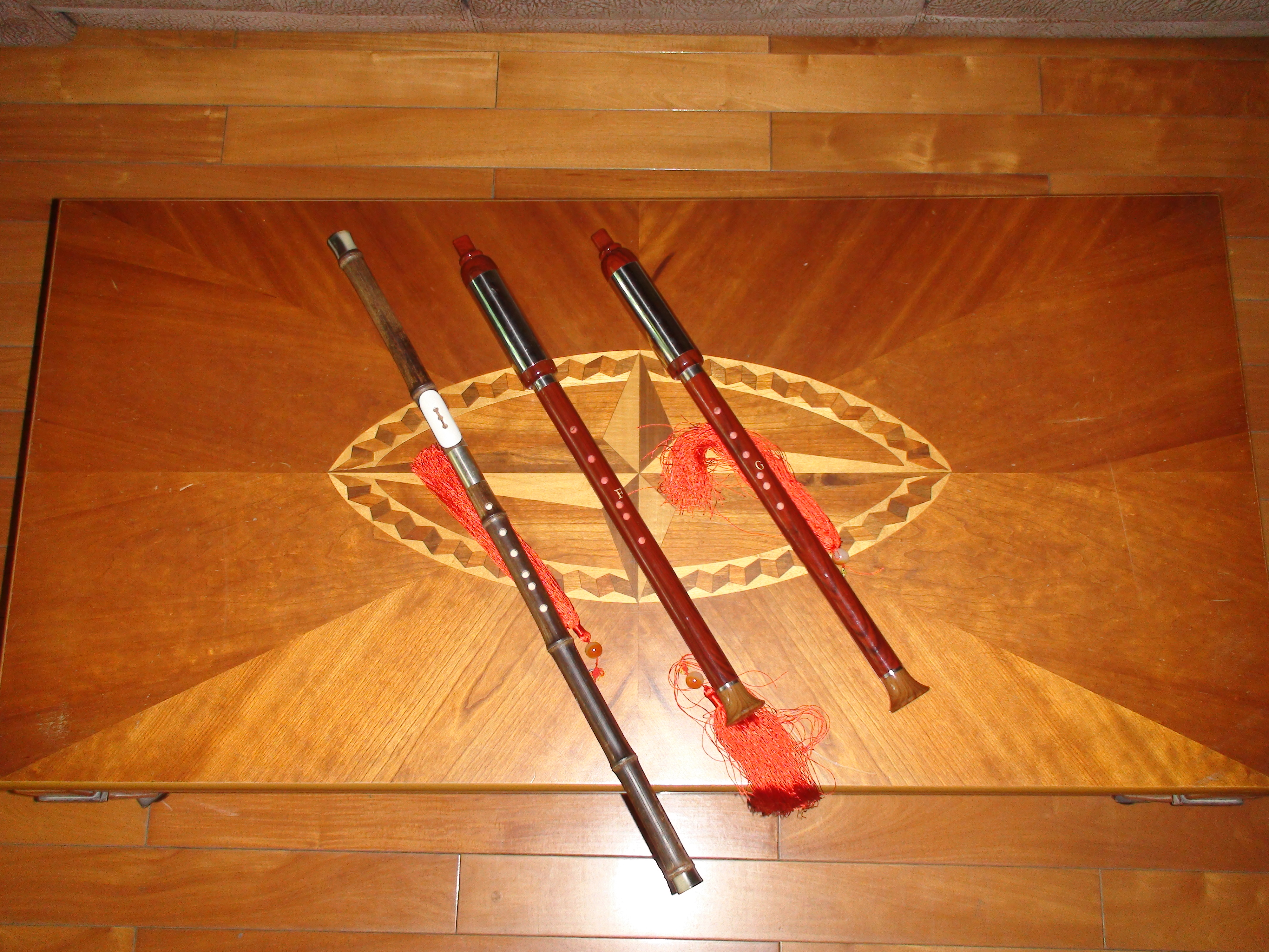 Picture of Bawu